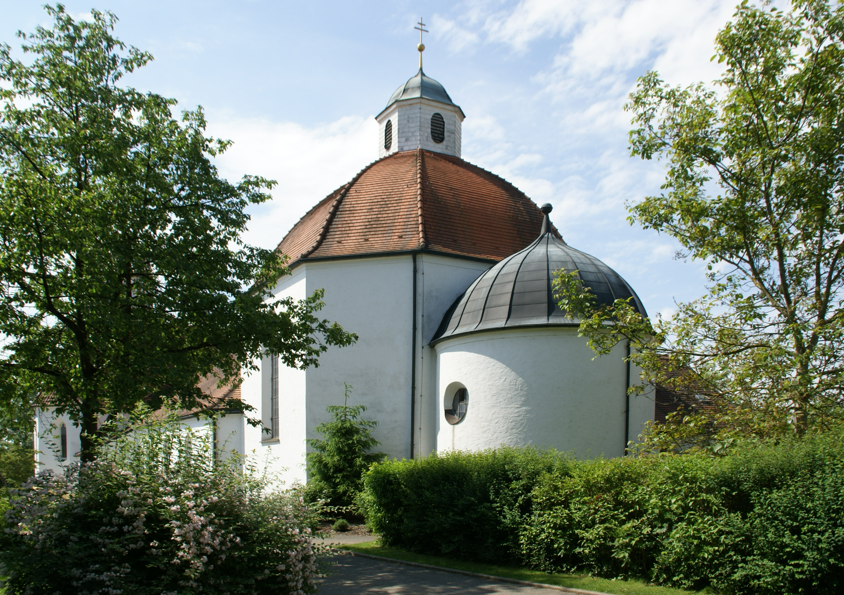 Catholic parish church of St. Johann Baptist in Töging am Inn: view of the new part